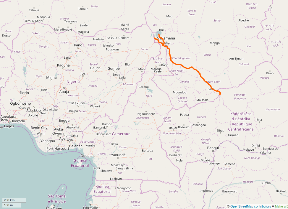 Chari river in Cameroon with OSM. This map may be incomplete, and may contain errors. Don't rely solely on it for navigation.